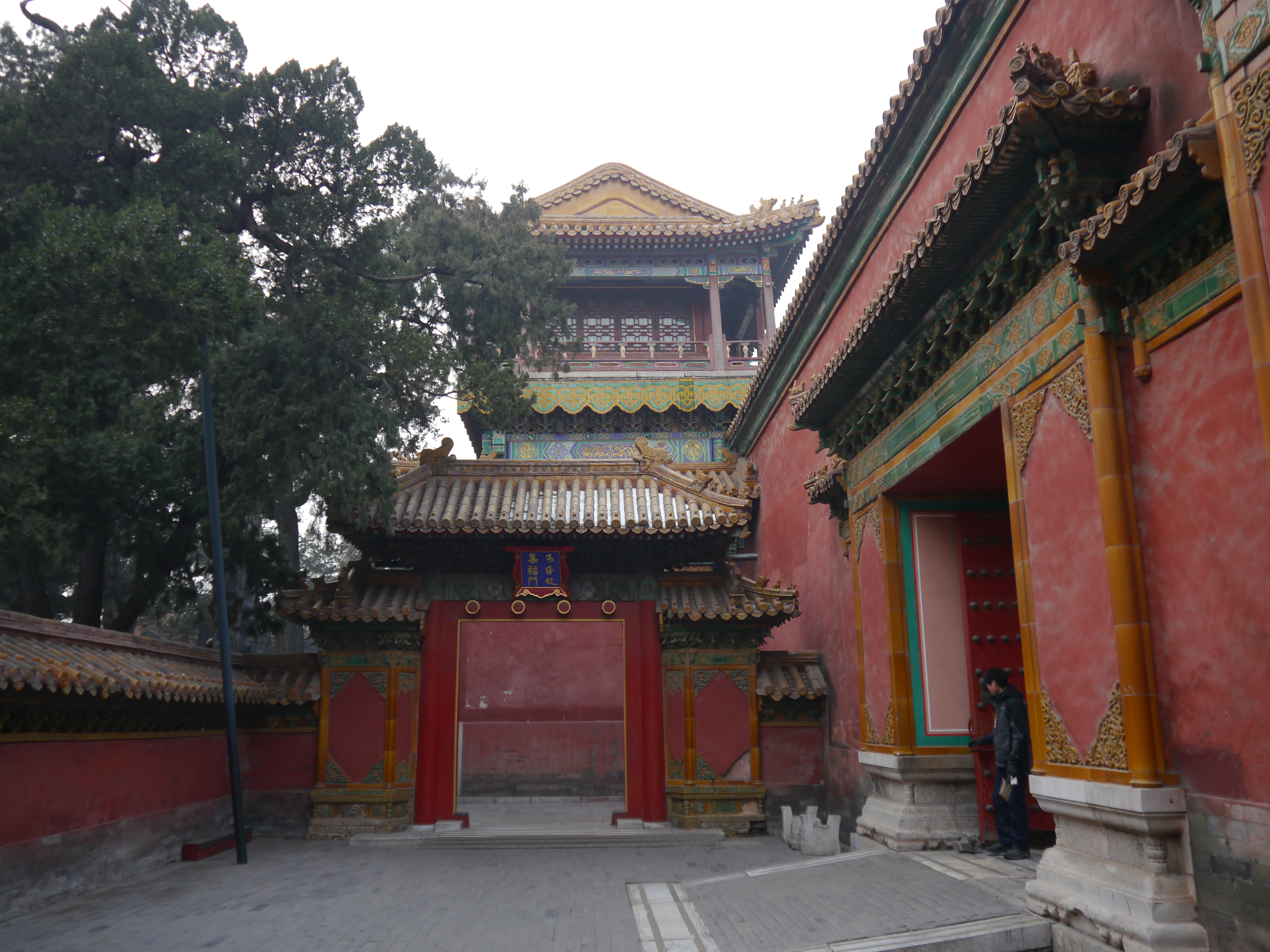 China, Beijing, Forbidden City.